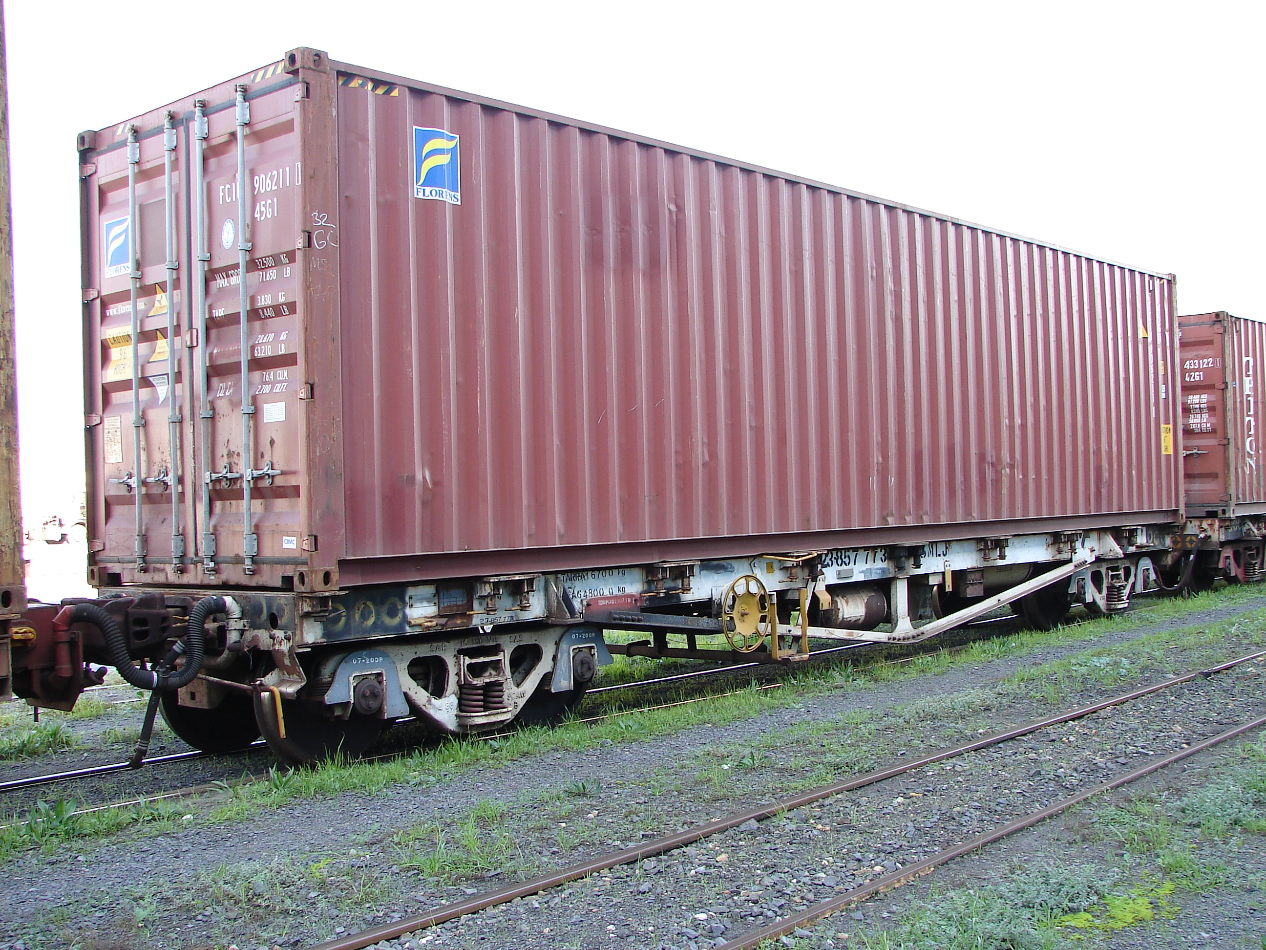 Line: Florens Container Holdings Limited Container number: FCIU 906211 0 ISO size & type code: 45G1 ISO description: 40 Foot High Cube Dry Shipping Container Railway truck: No. 23 857 773 SMLJ-16 Location: Table Bay Harbour, Cape Town, South Africa